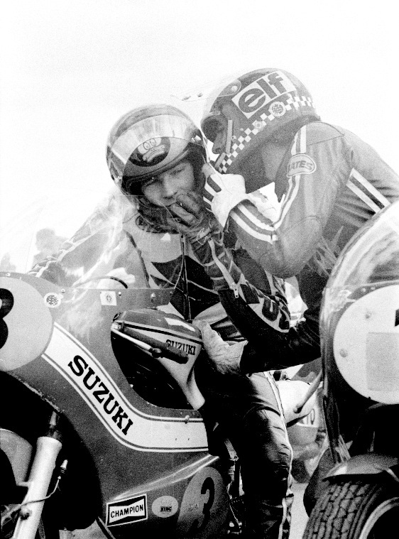 Barry Sheene and Phil Read